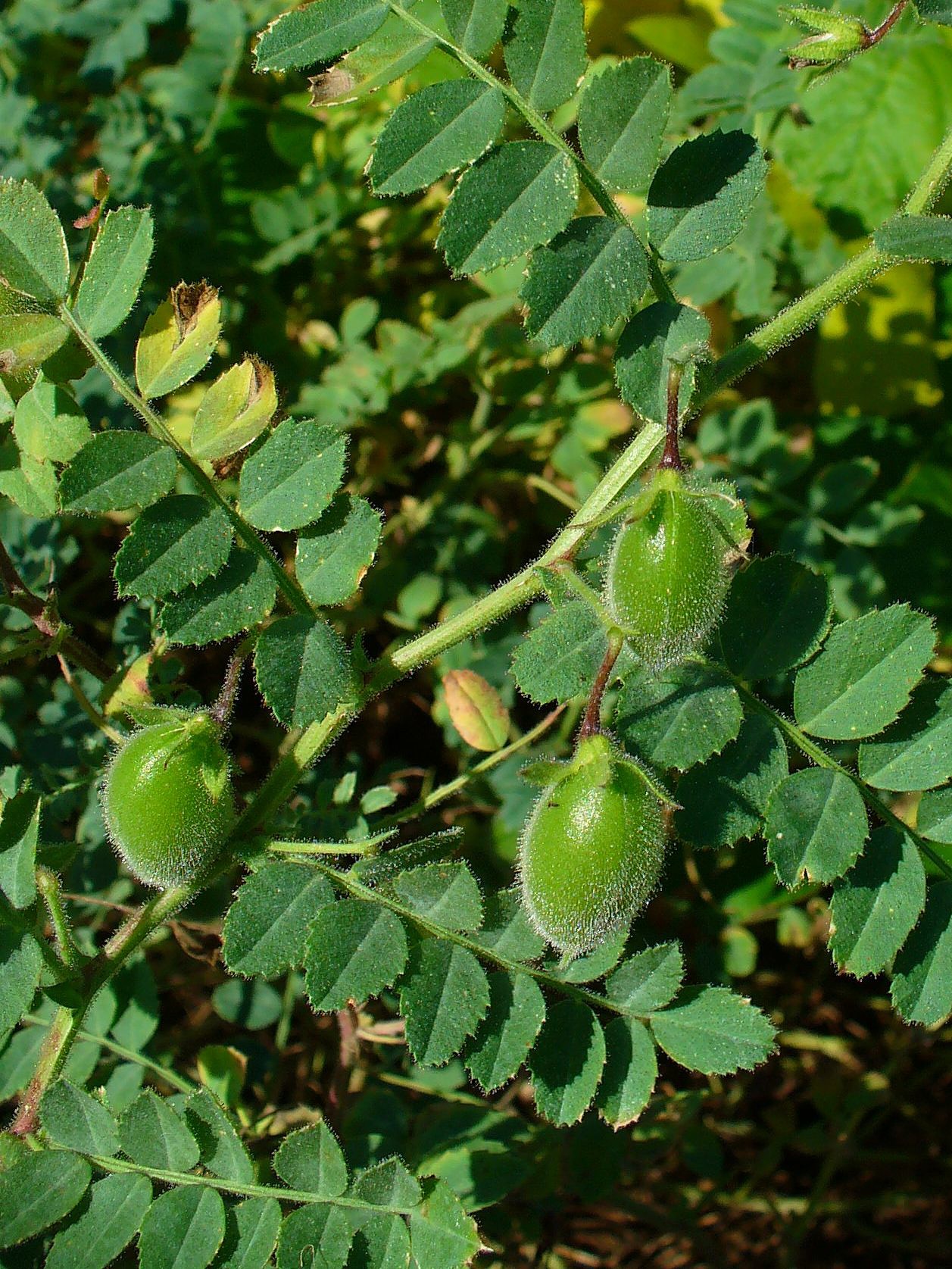 Cicer arietinum, Fabaceae, Chickpea, Garbanzo Bean, Indian Pea, Ceci Bean, Bengal Gram, green fruits; Botanical Garden KIT, Karlsruhe, Germany.